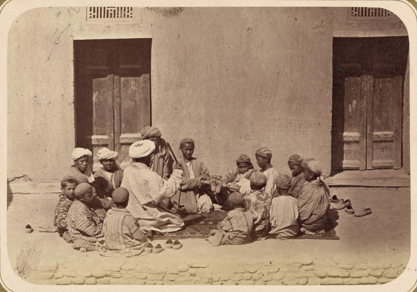 This photograph is from the ethnographical part of Turkestan Album, a comprehensive visual survey of Central Asia undertaken after imperial Russia assumed control of the region in the 1860s. Commissioned by General Konstantin Petrovich von Kaufman (1818–82), the first governor-general of Russian Turkestan, the album is in four parts spanning six volumes: “Archaeological Part” (two volumes); “Ethnographic Part” (two volumes); “Trades Part” (one volume); and “Historical Part” (one volume). The principal compiler was Russian Orientalist Aleksandr L. Kun, who was assisted by Nikolai V. Bogaevskii. The album contains some 1,200 photographs, along with architectural plans, watercolor drawings, and maps. The “Ethnographic Part” includes 491 individual photographs on 163 plates. The photographs show individuals representing the different peoples of the region (Plates 1–33); daily life and rituals (Plates 34–91); and views of villages and cities, street vendors, and commercial activities (Plates 92–163). Boys; Ethnographic photographs; Muslims; Photographic surveys; Punishment; Schools; Students; Teachers; Turkic peoples